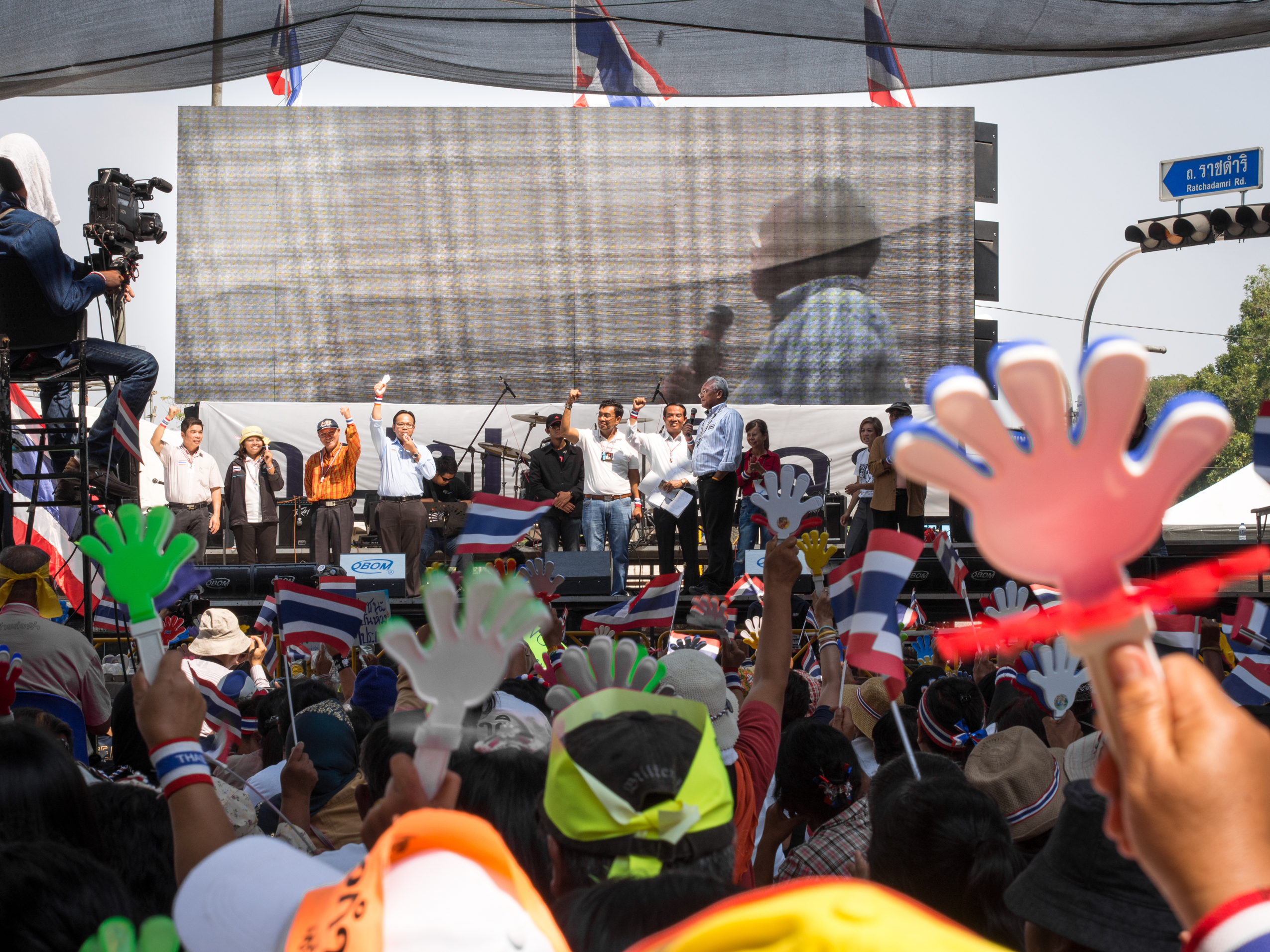 Suthep Thaugsuban holds a speech on the day of the general elections at the Silom anti-government protest site.